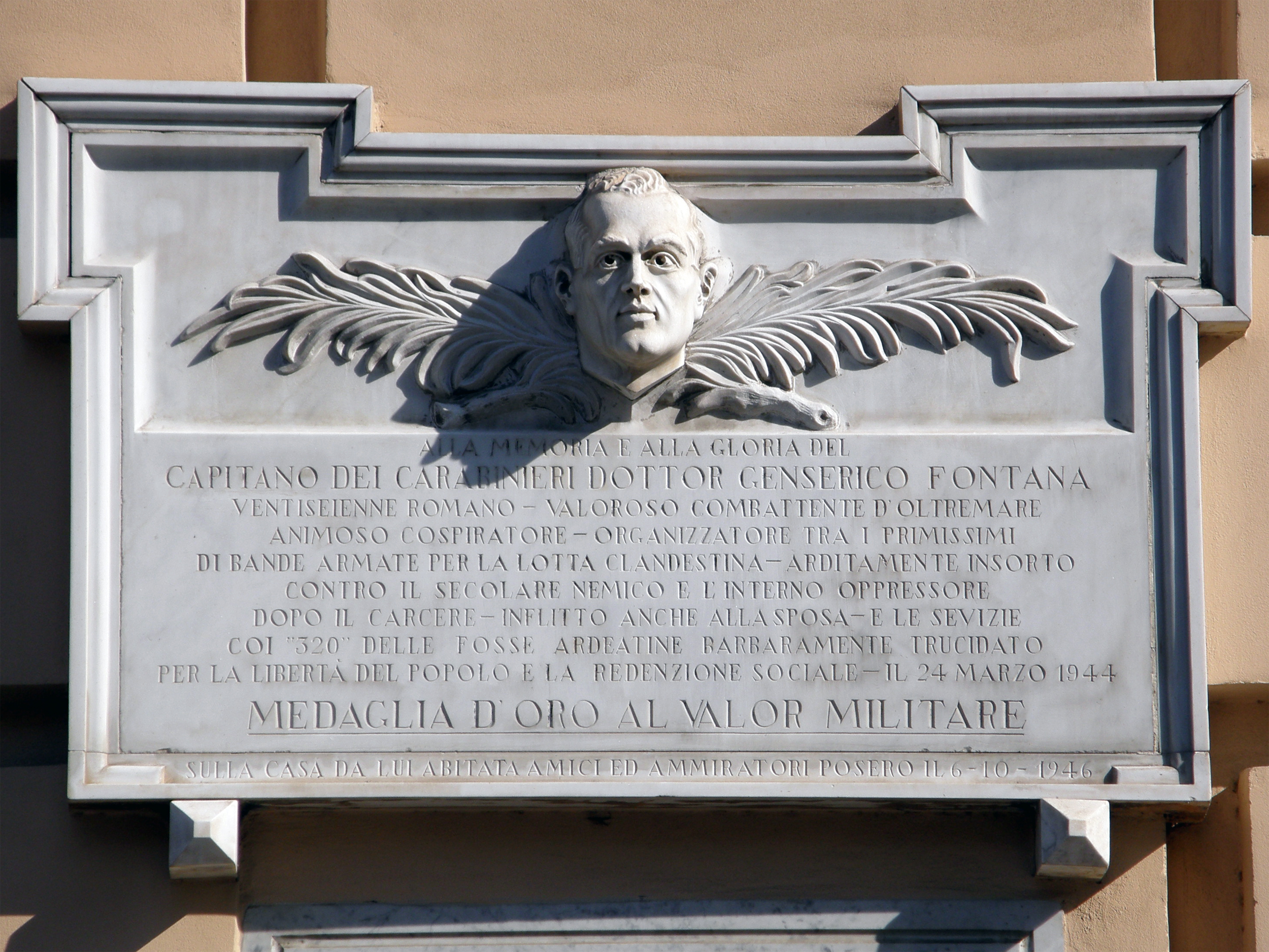 Rome, Italy - Plaque devoted to Genserico Fontana, placed in Via Nomentana 84